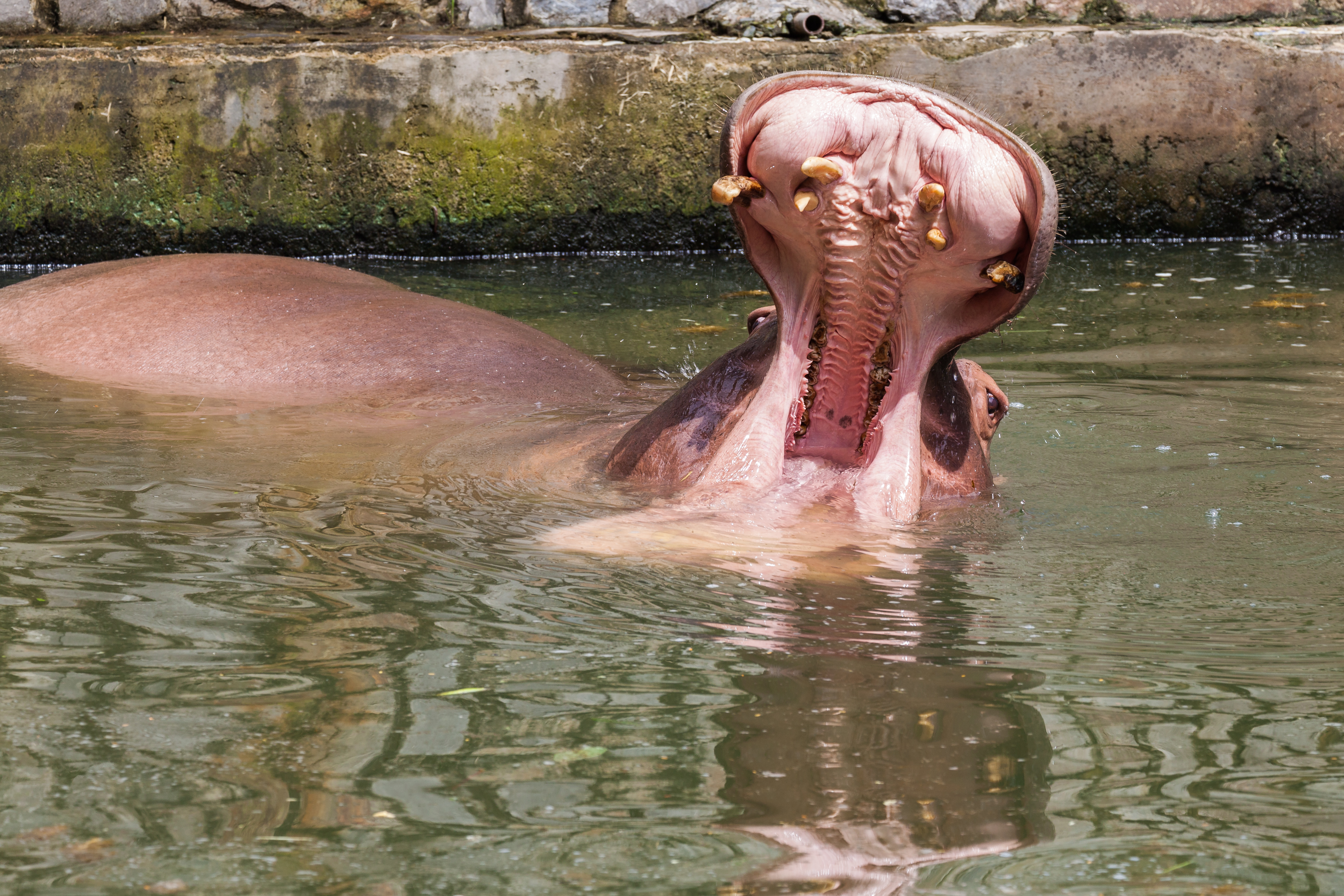 Hippo (Hippopotamus amphibius), Ho Chi Minh City Zoo, Vietnam